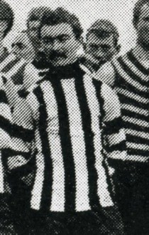 Photograph of Bob Burns in 1904.